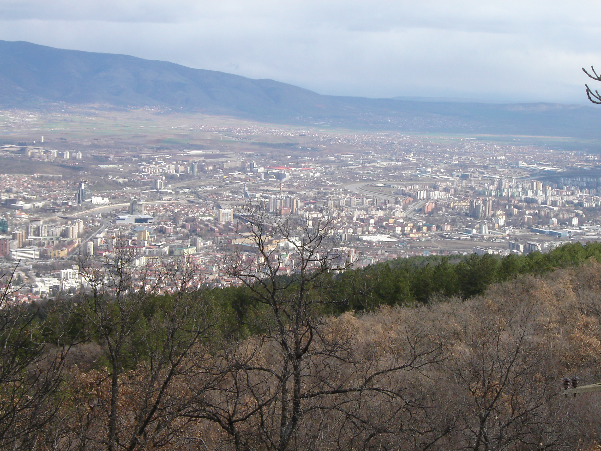 Skopje seen from Vodno.